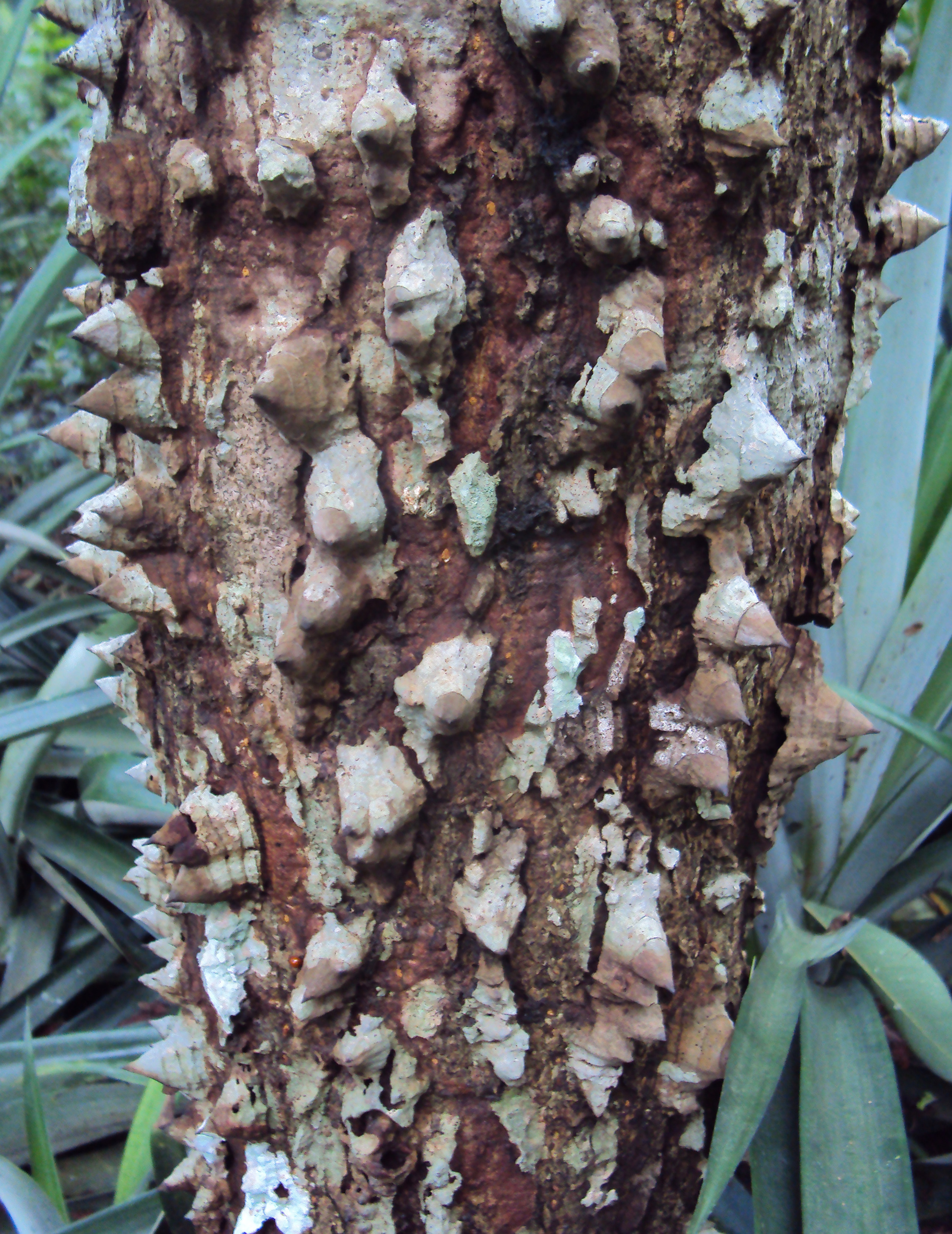 Bombax ceiba bark